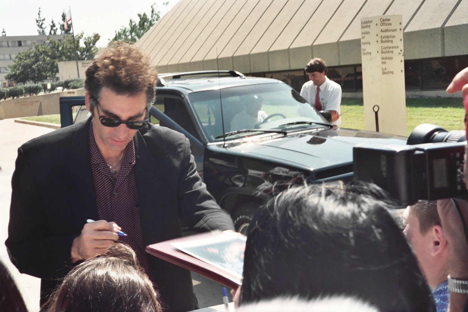 1994 Emmy Awards NOTE: Permission granted to copy, publish, broadcast or post any of my photos, but please credit "photo by Alan Light" if you can. Thanks. Scanned from the original 35MM film negative.